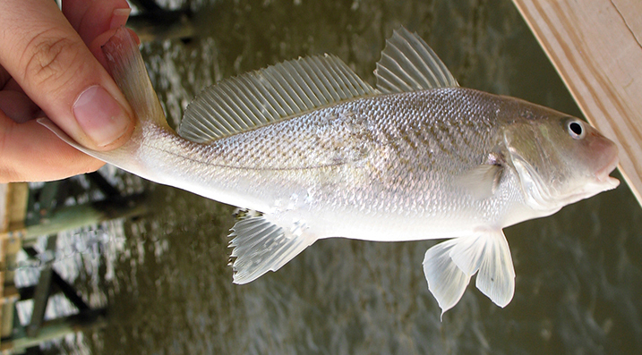 A very small Atlantic Croaker (Micropogonias undulatus) caught along the Mississippi Gulf Coast. I removed the It was hooked on its side, but I removed the hook and line in Photoshop Elements.